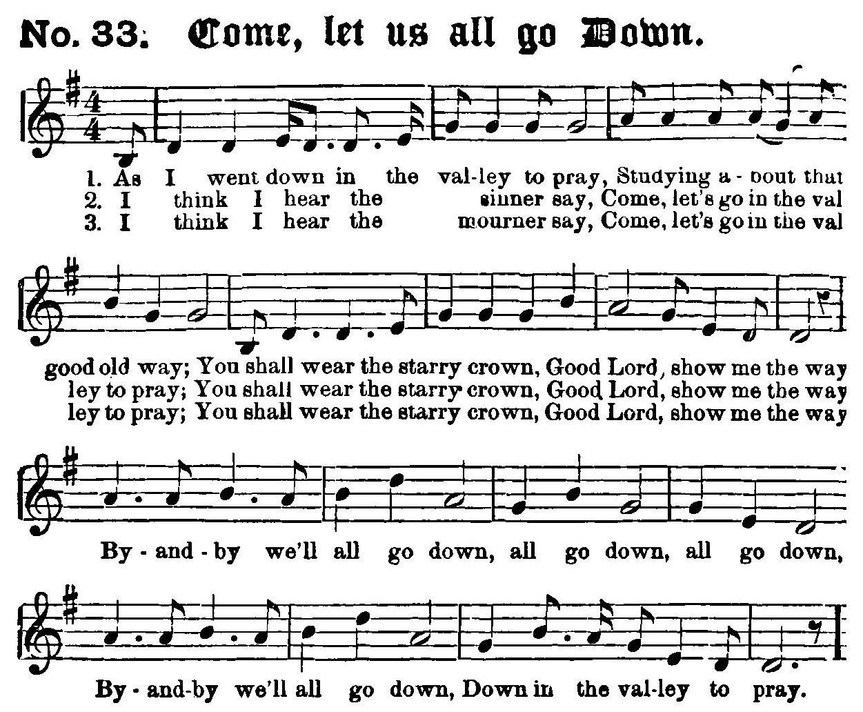 Song 'Come, let us all go down', an early version of the song that became known as 'Down in the River to Pray'. This is the version as sung by the Fisk Jubilee Singers.